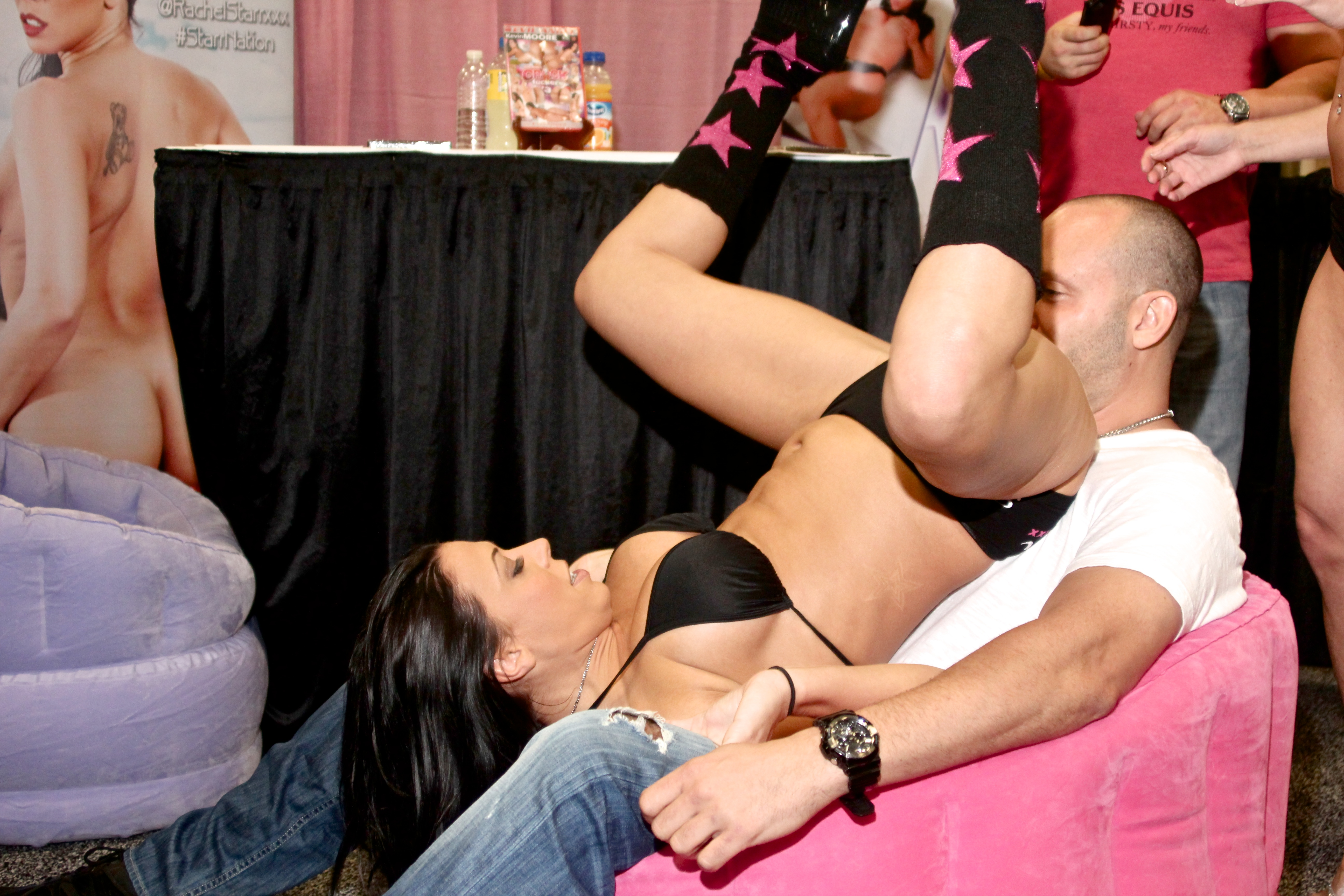 Rachel Starr at Exxxotica NJ 2013 in Edison, New Jersey.